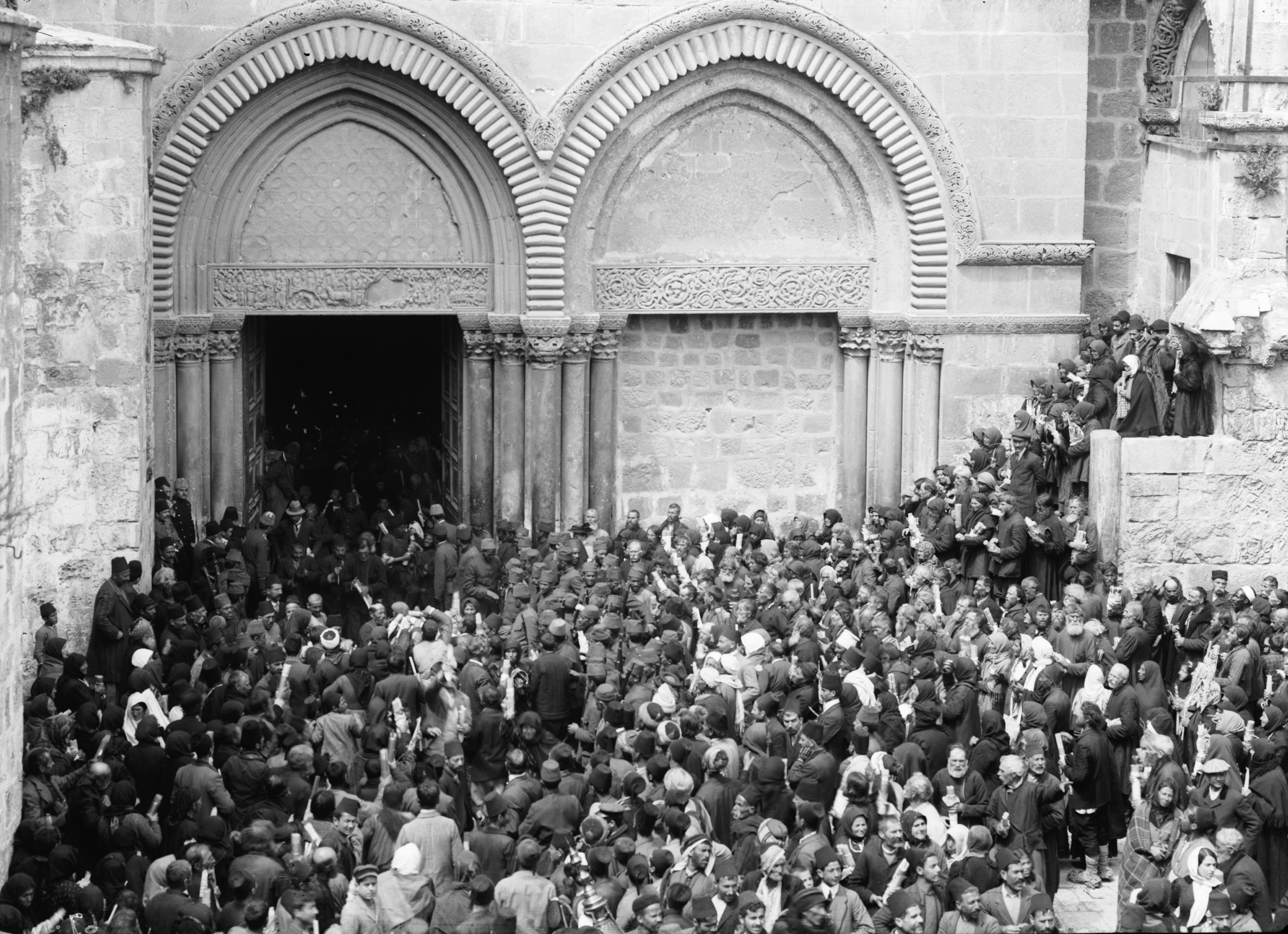 Church of the Holy Sepulchre and surroundings. Crowds awaiting the "Holy Fire".